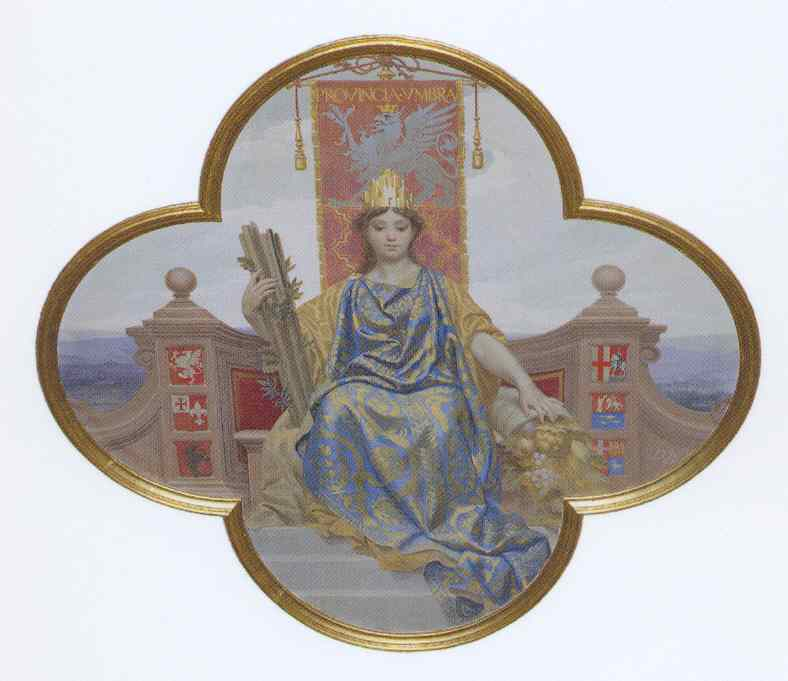 Personification of the Umbrian region (1873) in a quatrefoil shaped frame.label QS:Lit,"Personificazione dell'Umbria (1873)." label QS:Len,"Personification of the Umbrian region (1873) in a quatrefoil shaped frame."